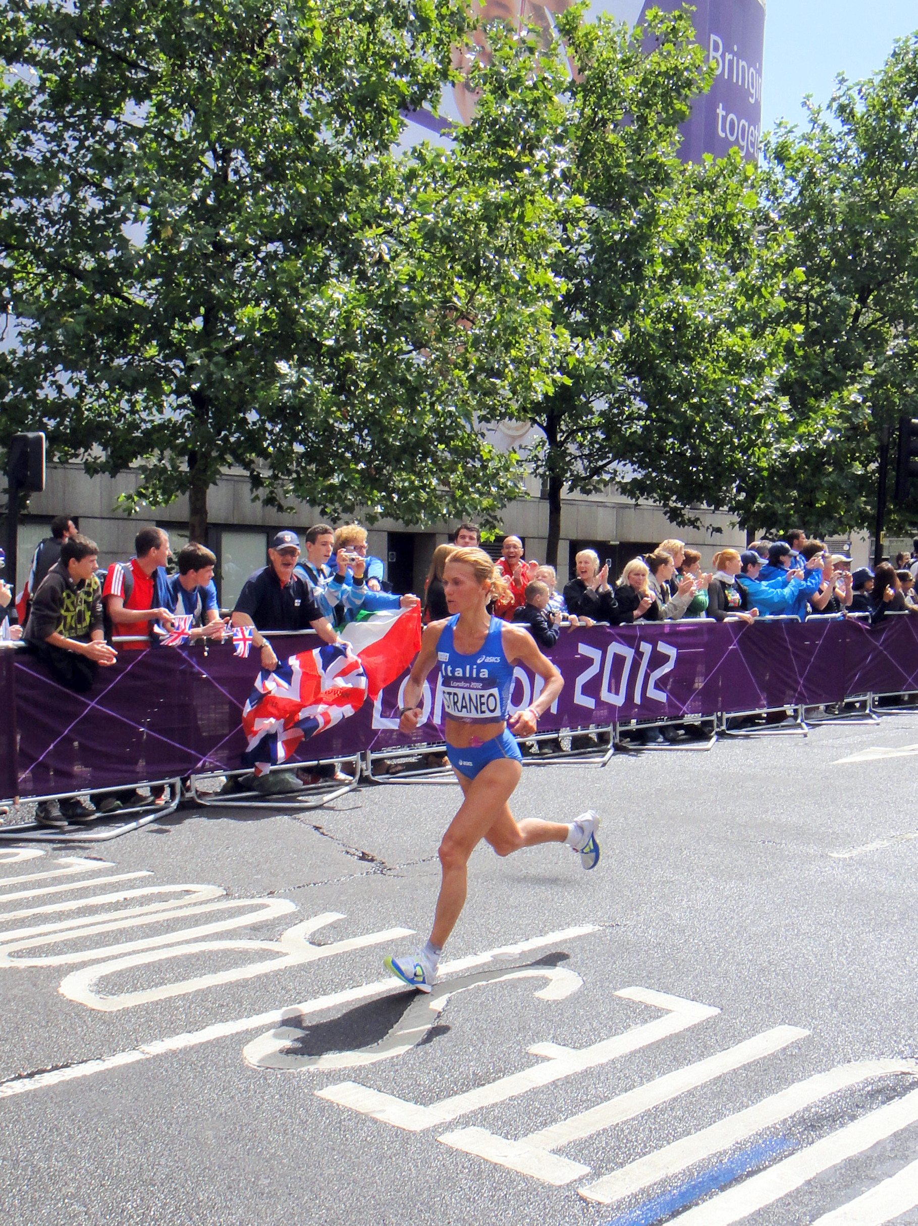 Valeria Straneo (Italy) - London 2012 Women's Marathon